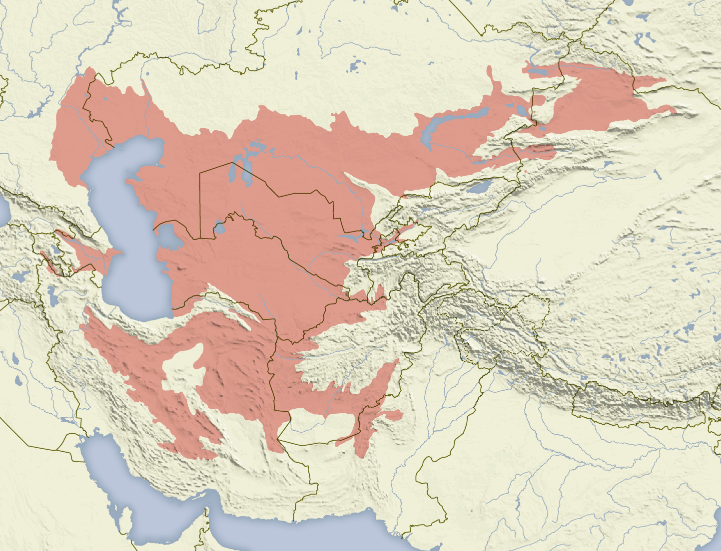 Distribution map of the small five-toed jerboa